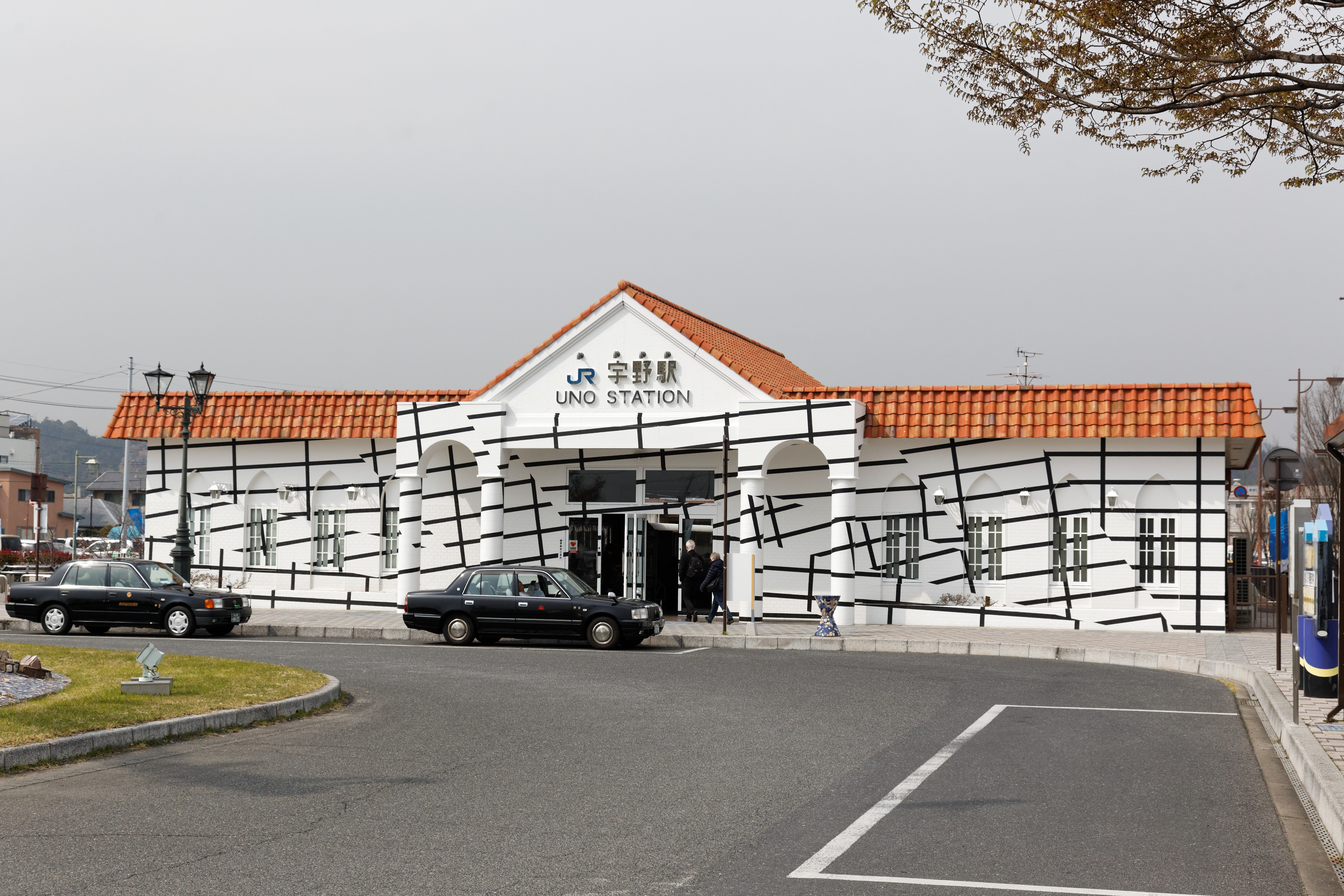 Uno Station